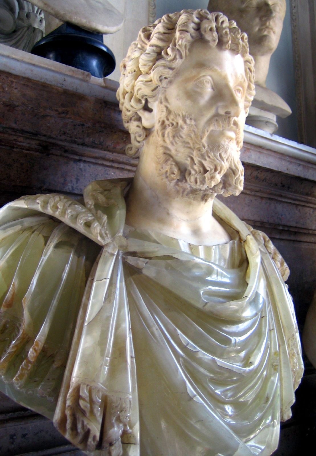 Head of Roman Emperor Septimius Severus (193-211 CE) of the Serapis type. Greek marble (head) and green alabaster (bust, does not belong), probably posthumous.